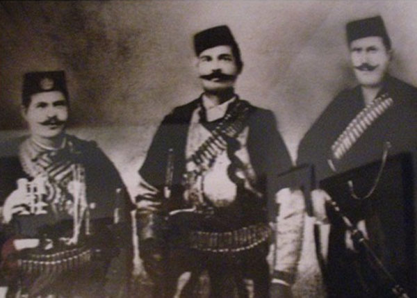 Bulgarian revolutioneries